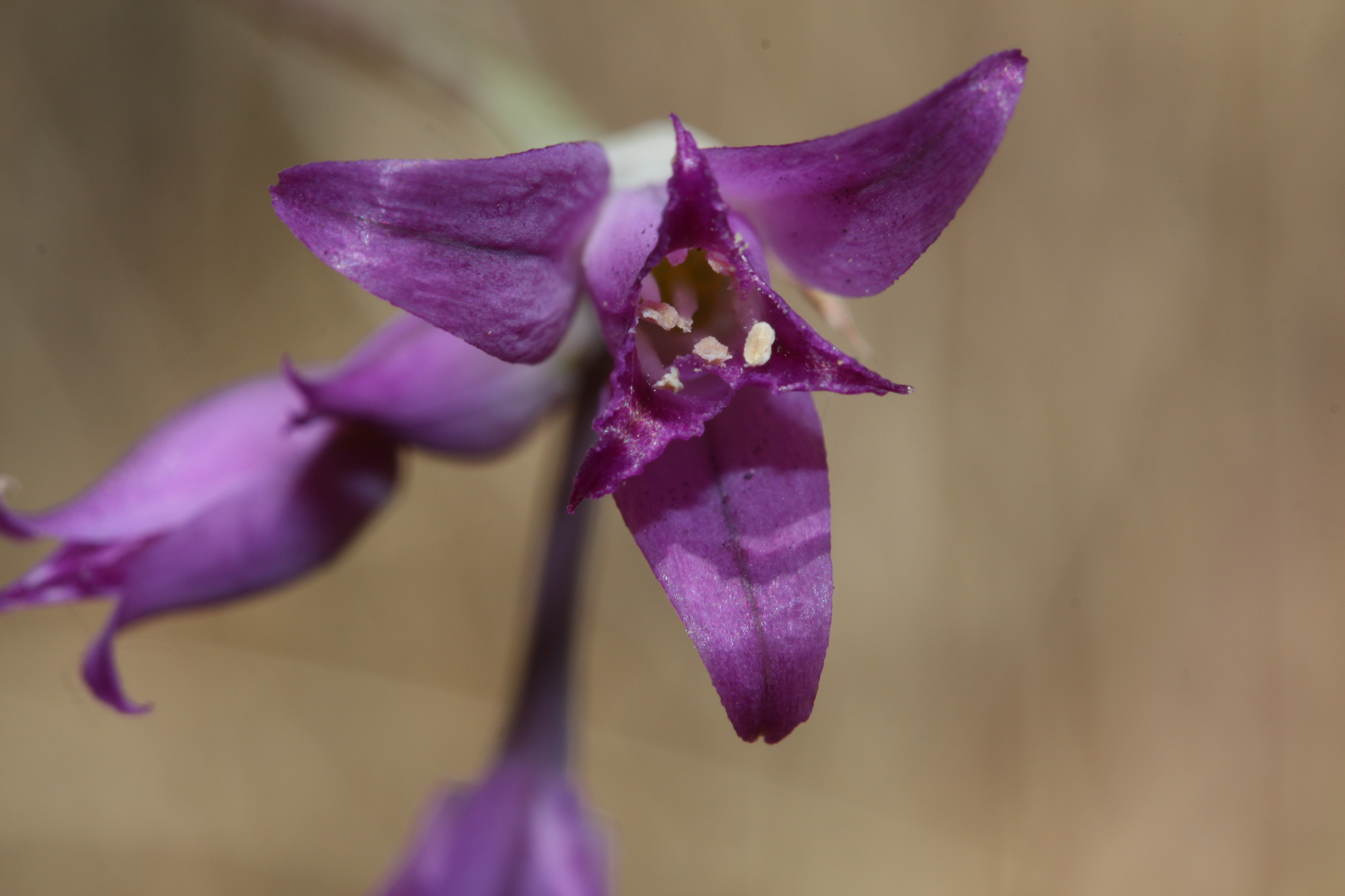 Taper-tip Onion